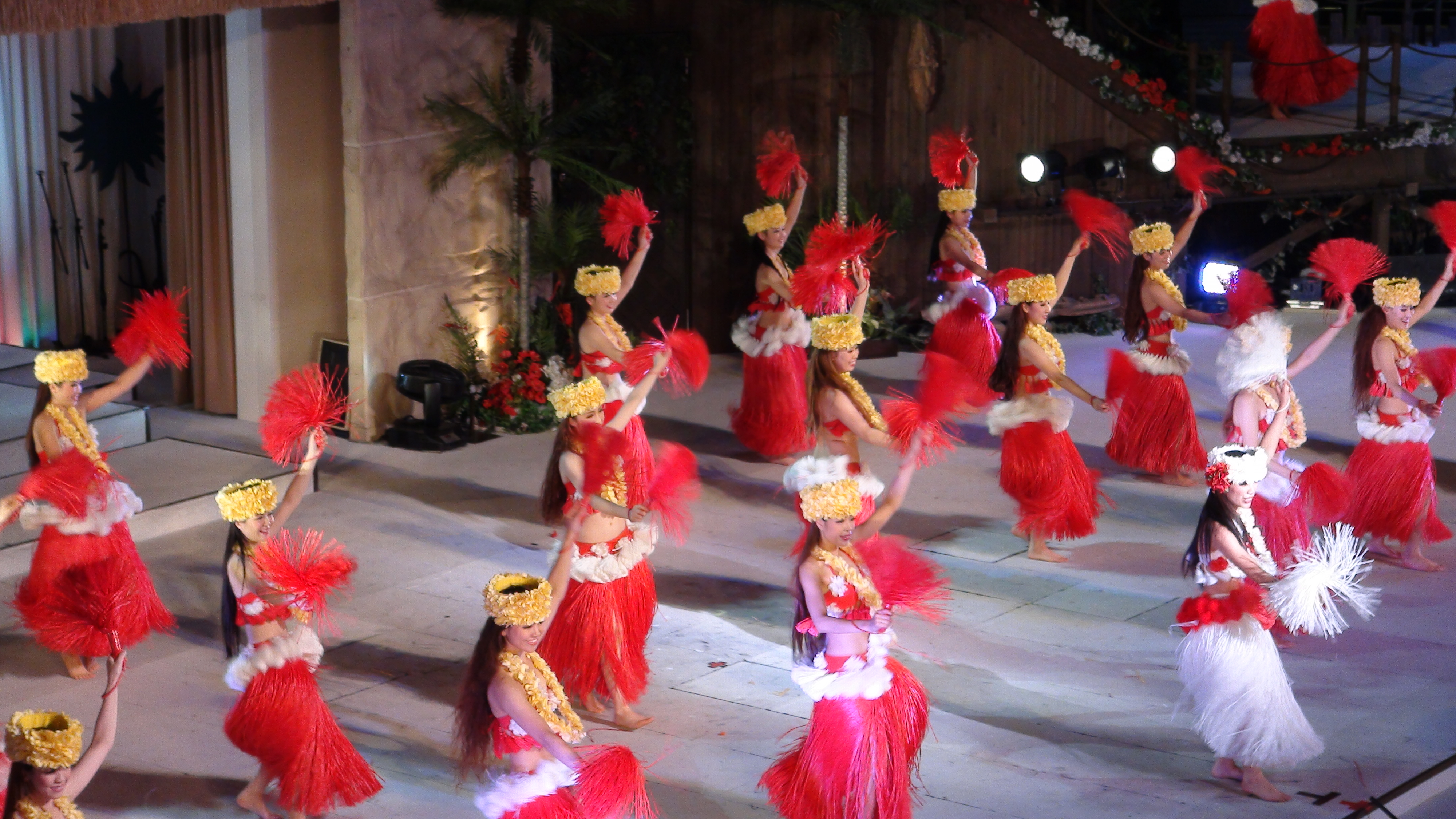 Spa Resort Hawaiians. Dance of Fula Girls